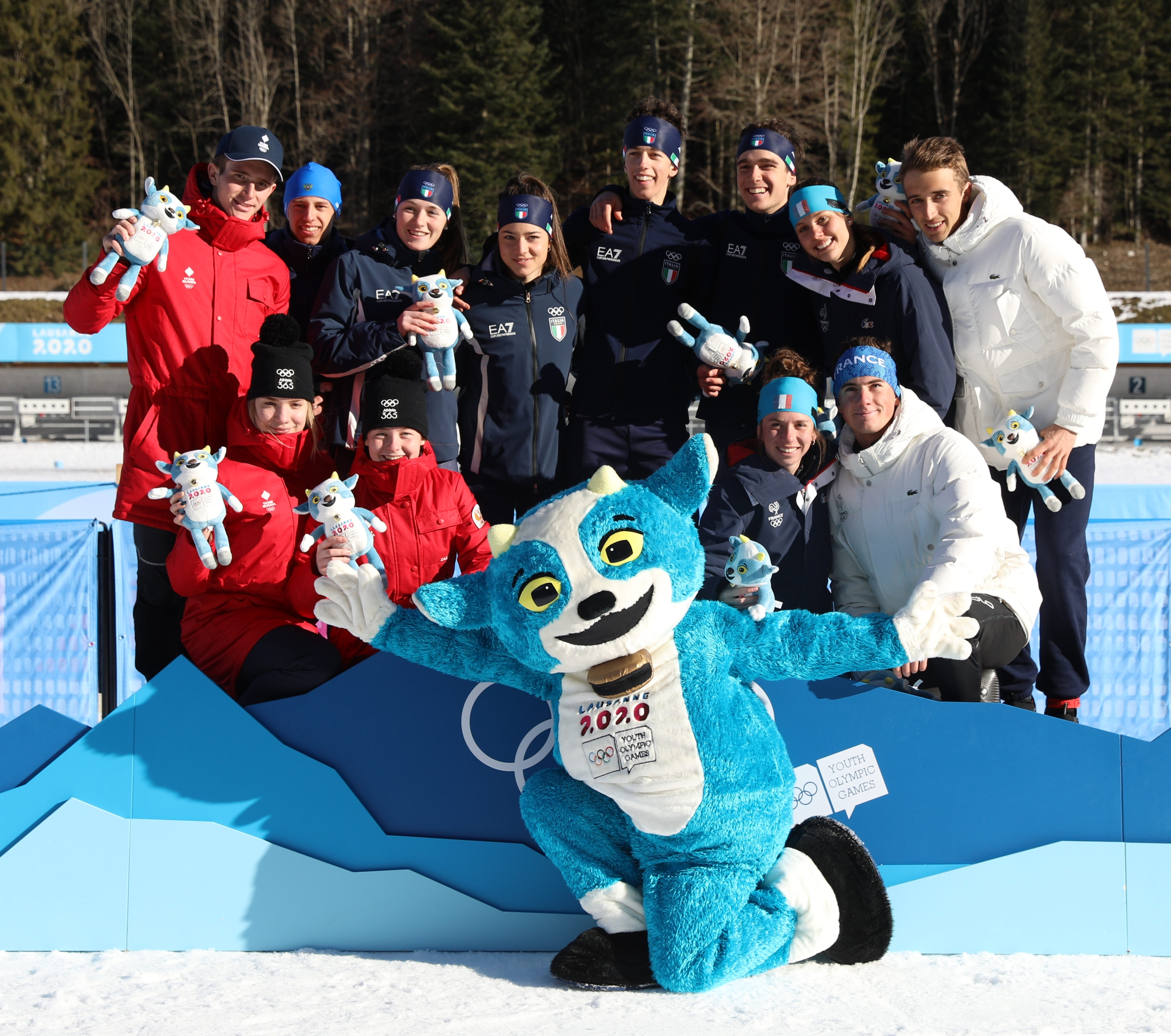 Mascot Ceremony of Mixed Relay of Biathlon at the 2020 Winter Youth Olympics in Lausanne on 15 January 2020.